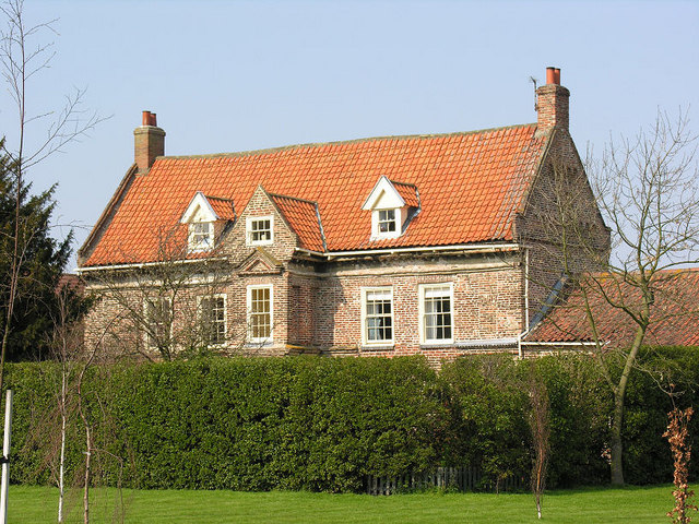 Southwood Hall off Burton Road, Cottingham, East Riding of Yorkshire, England. This old hall is now surrounded by modern housing estates and it's very easy to drive past without noticing this interesting building set in its own grounds. It dates from the 17th. century and is the third oldest building and second oldest inhabited building in Cottingham. King Charles I is reputed to have stayed here after being refused entry to Hull in 1632.